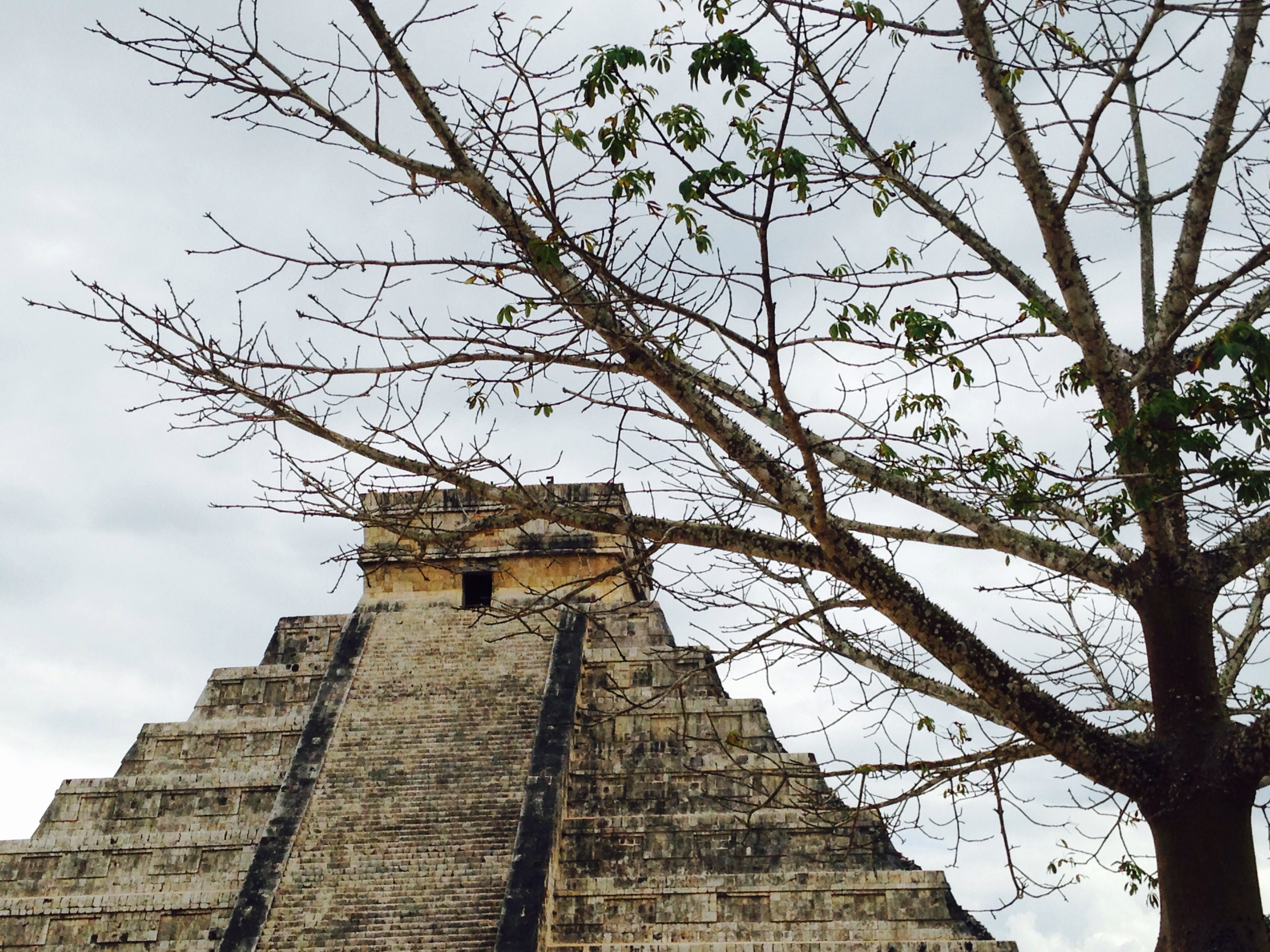 Maya temple in Chichén Itzà, Mexico